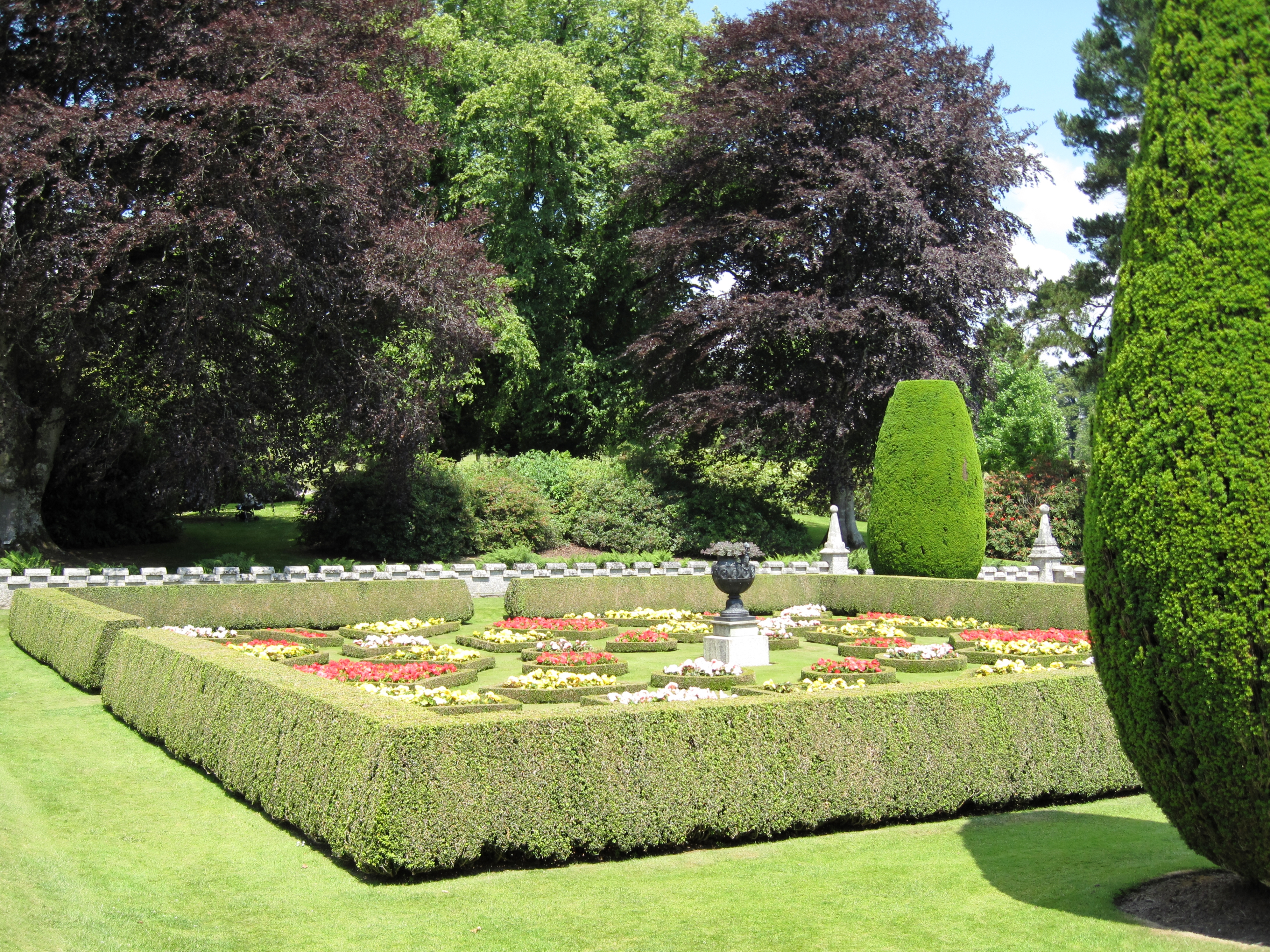 Parterre Garden with Taxus baccata Topiary at Lanhydrock - Cornwall - England.